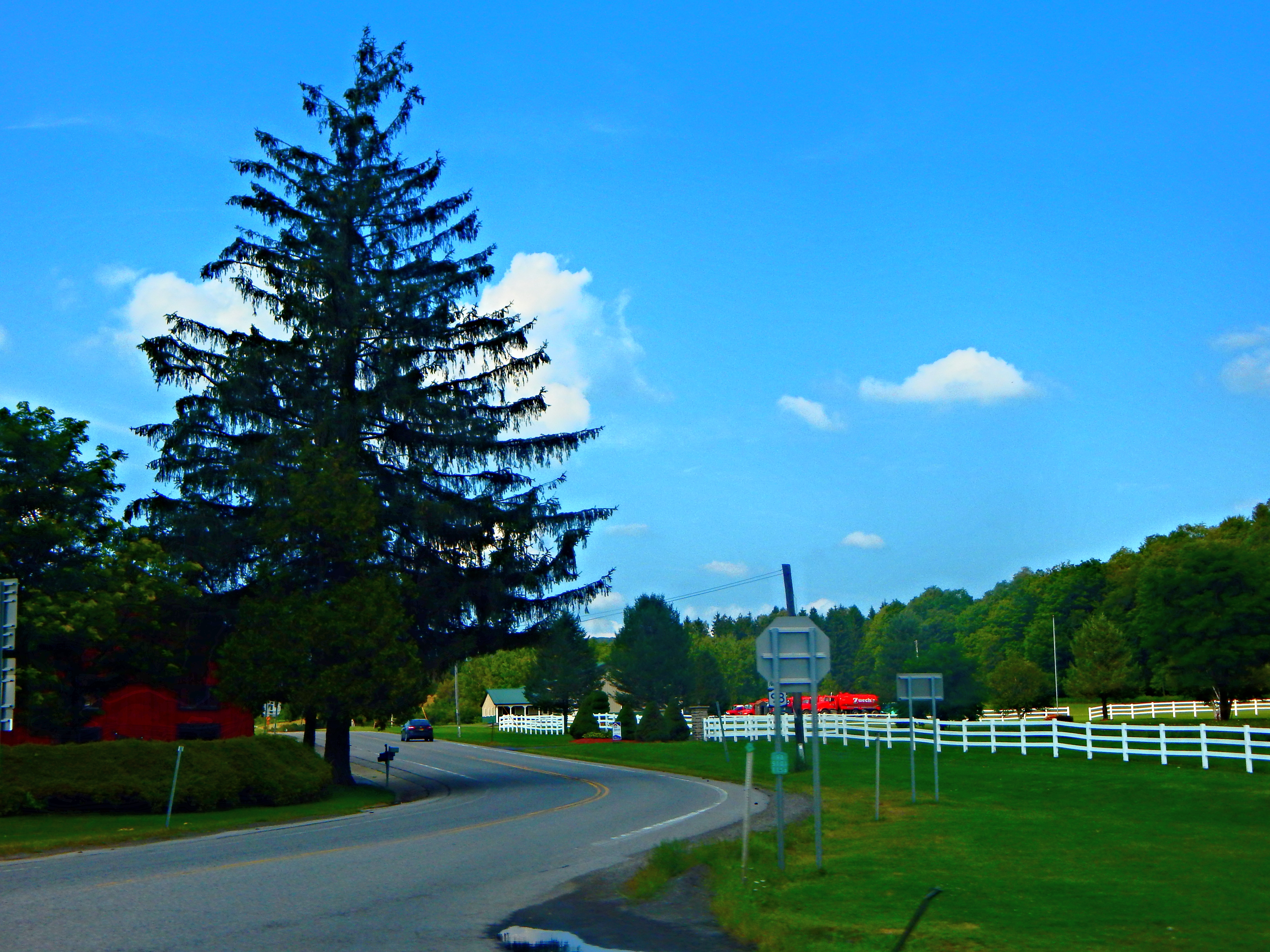 NY 98 heading northeast from NY 16 in the town of Farmersville, New York.